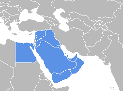 Member States of the United Nations Economic and Social Commission for Western Asia. Before Sudan joined!